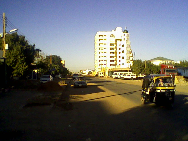 Khartoum Street, Mosque and public transport Chakra